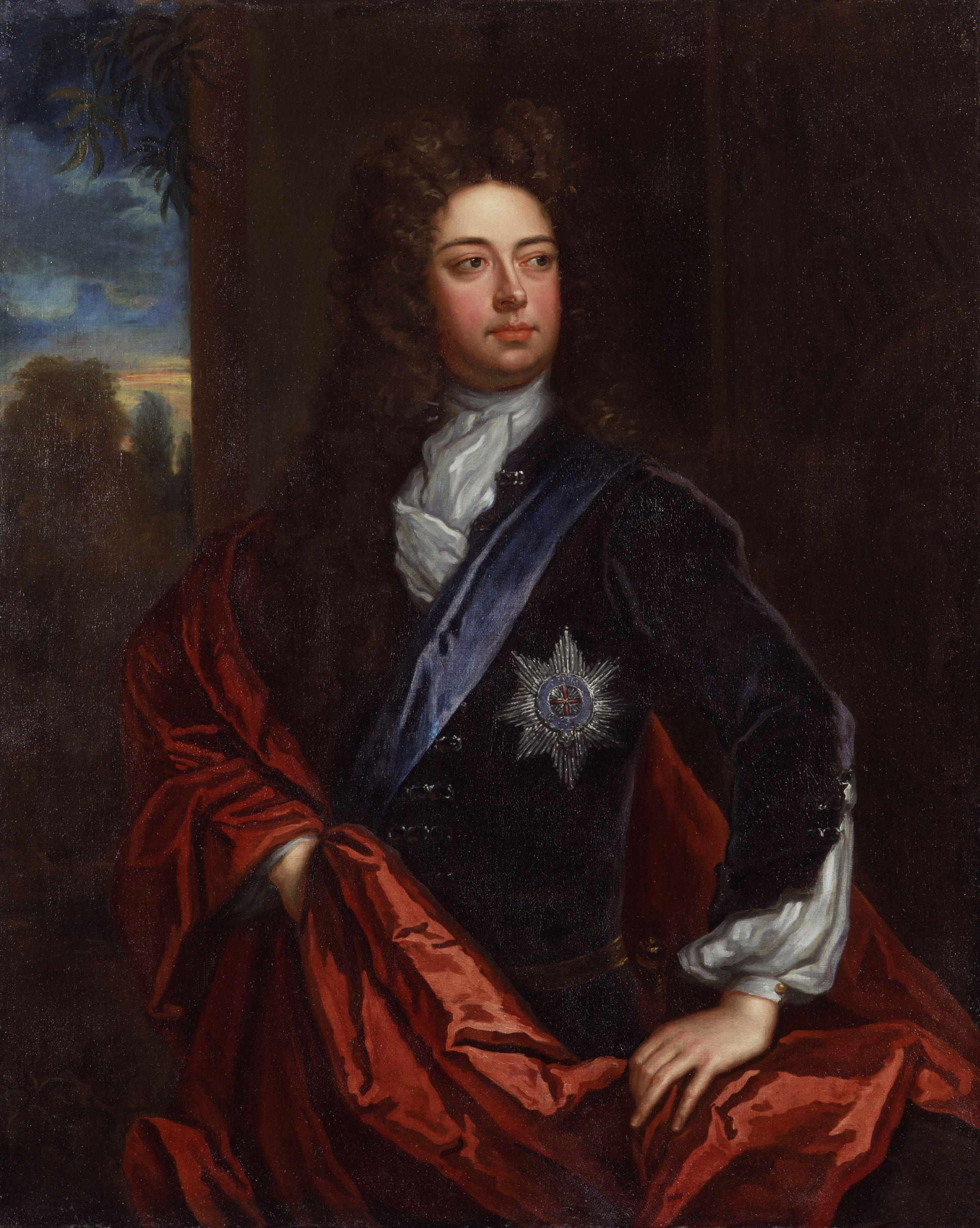 All images in this batch have been confirmed as author died before 1939 according to the official death date listed by the NPG.